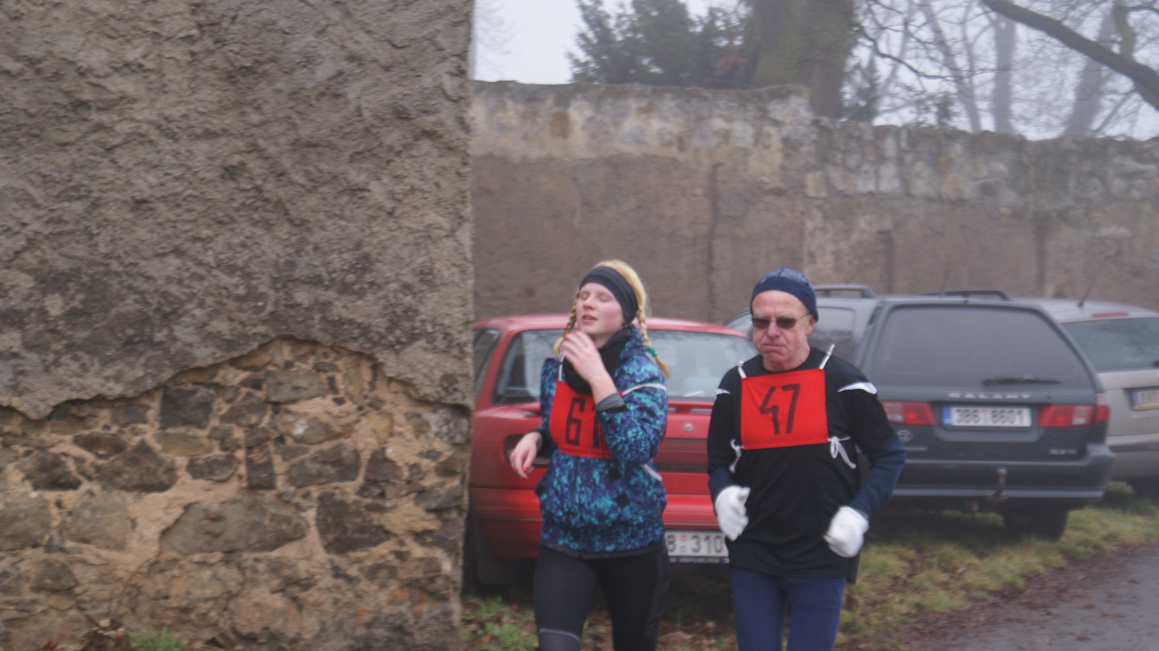 Liteň - running race